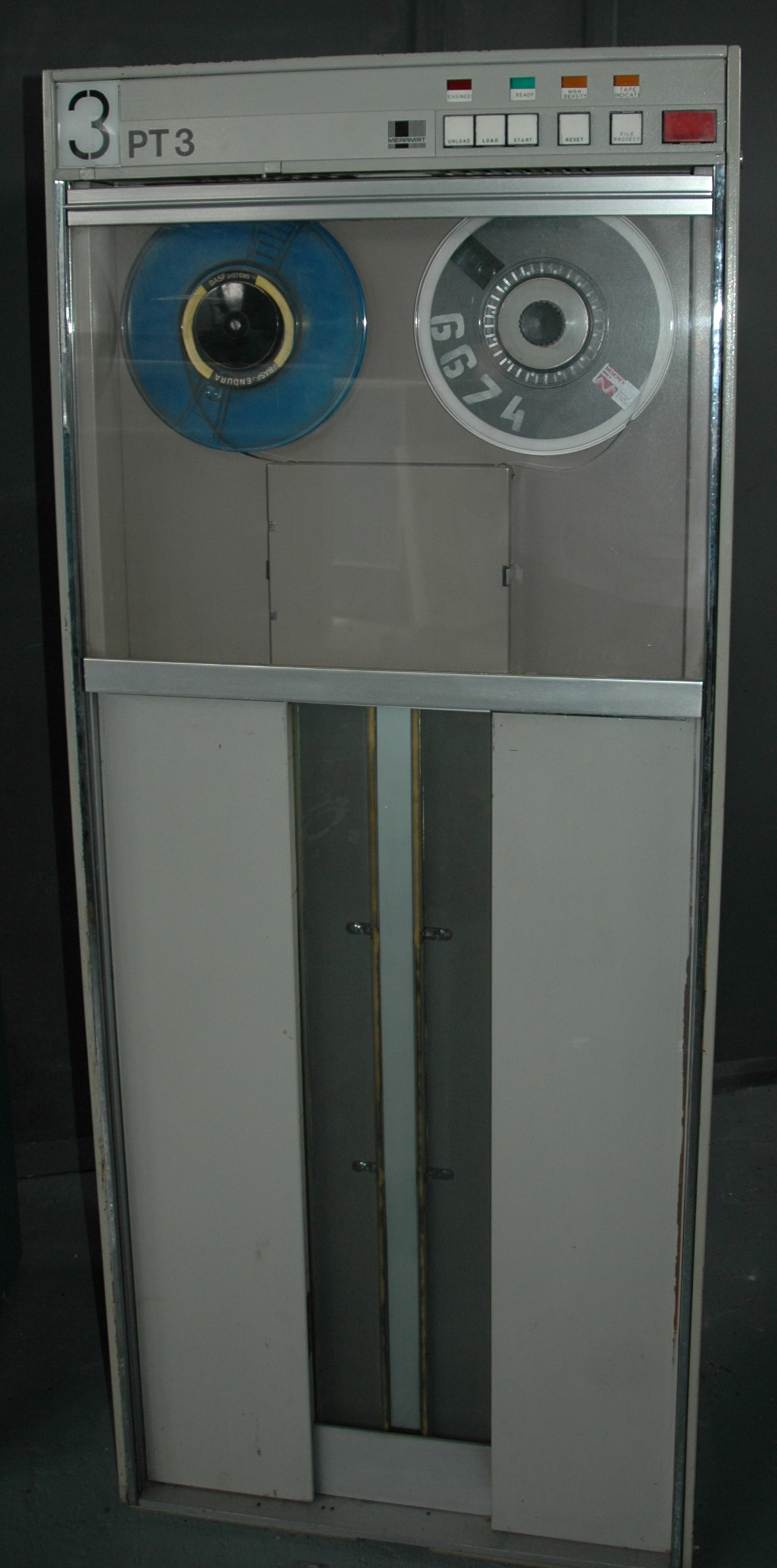 Poland, Jaworzyna Slaska - Museum of Industry and Railway in Lower Silesia, tape memory unit (PT-3) for "Odra" computer.